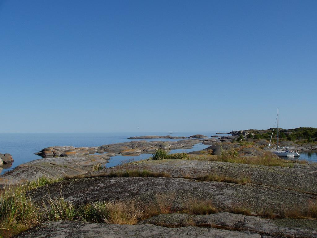 View from the island Skinnbroken towards south-east. East part of Björkskärs skärgård, a small group of islands, approx. 9 nautical miles east of Möja.